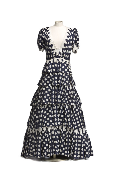 Evening dress in dark blue silk with white polka dots and ruffled skirt, by Ana de Pombo for Paquin, Summer 1939.